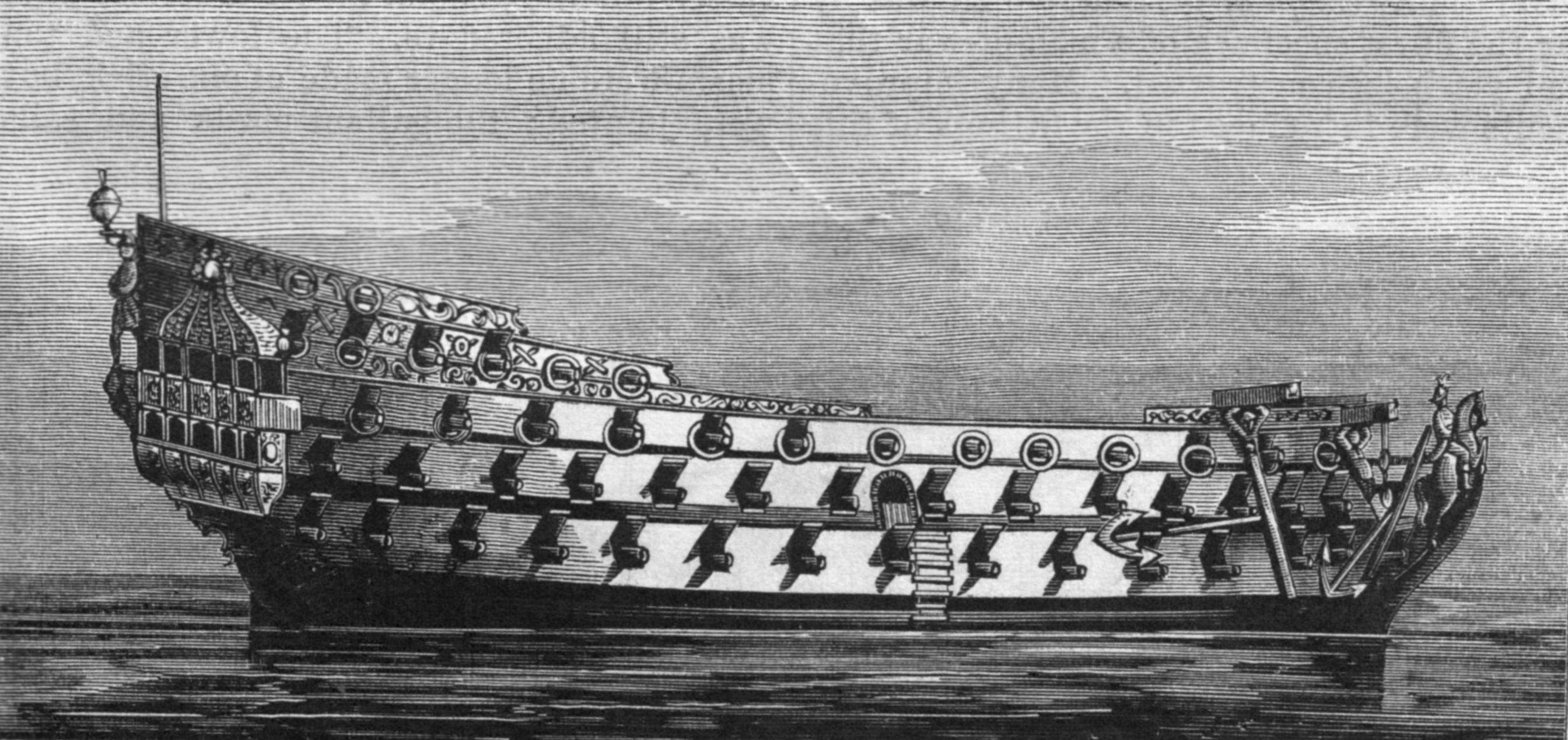 Engraving of the HMS Royal Charles (formerly the Naseby).